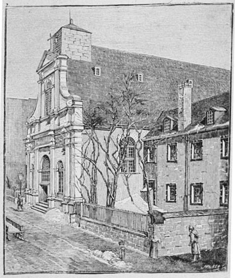 Engraving, Ancienne église des Recollets, Montreal, about 1886, John Henry Walker (1831-1899), Ink on paper - Wood engraving - 31.3 x 22.3 cm